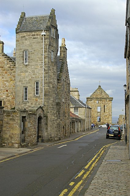 Castle St. Castle street St Andrews with the Episcopal Church on the left and the castle in the distance.